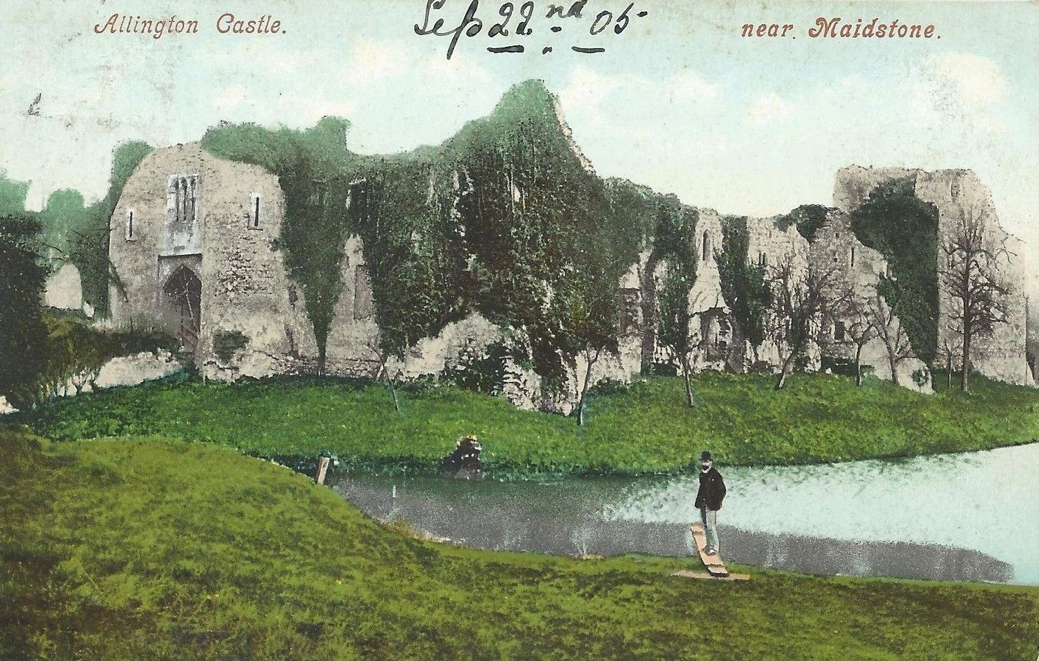 Postcard of Allington Castle, 1905.